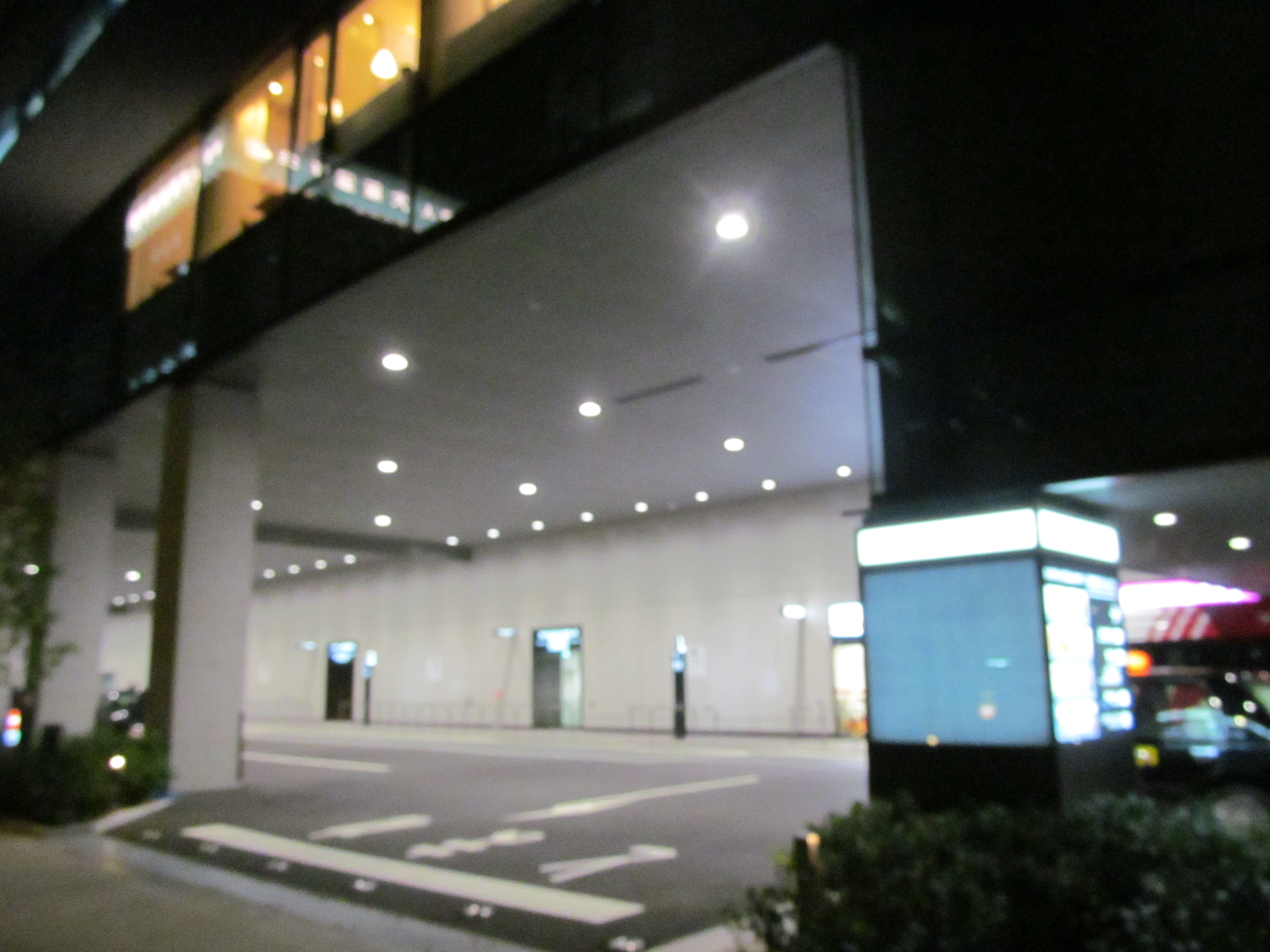 Hankyu Shin-Osaka Bus Tearminal